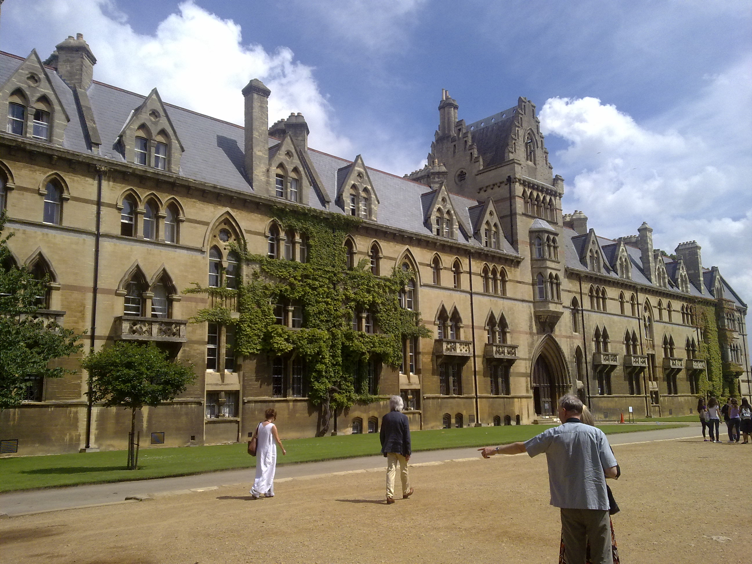 Meadow Building, Christ Church, Oxford